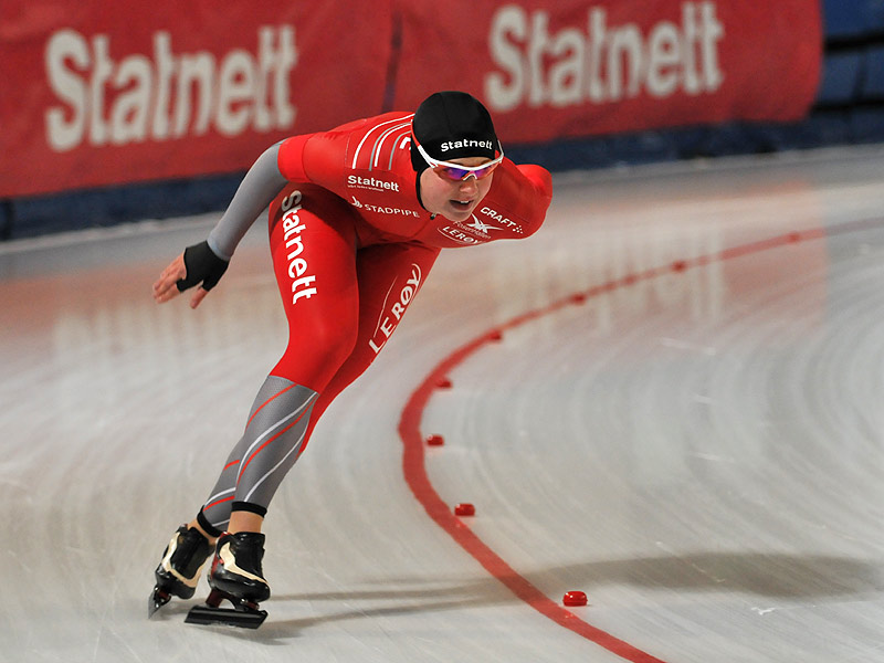 Ida Njåtun at the Norwegian Championships 2012 in Stavanger.